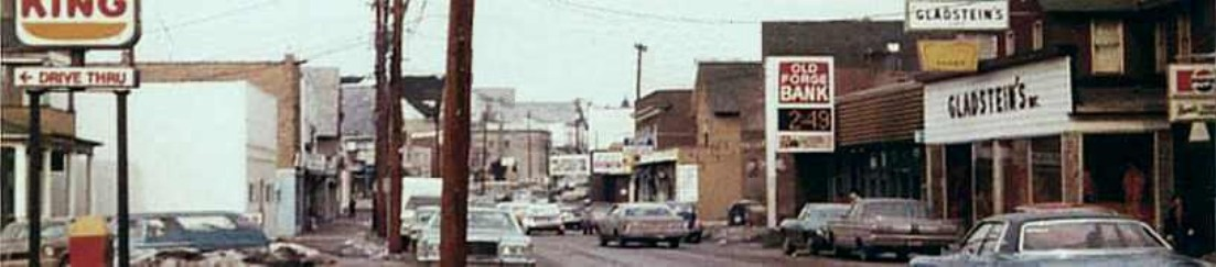 Photo of Main Street looking north.